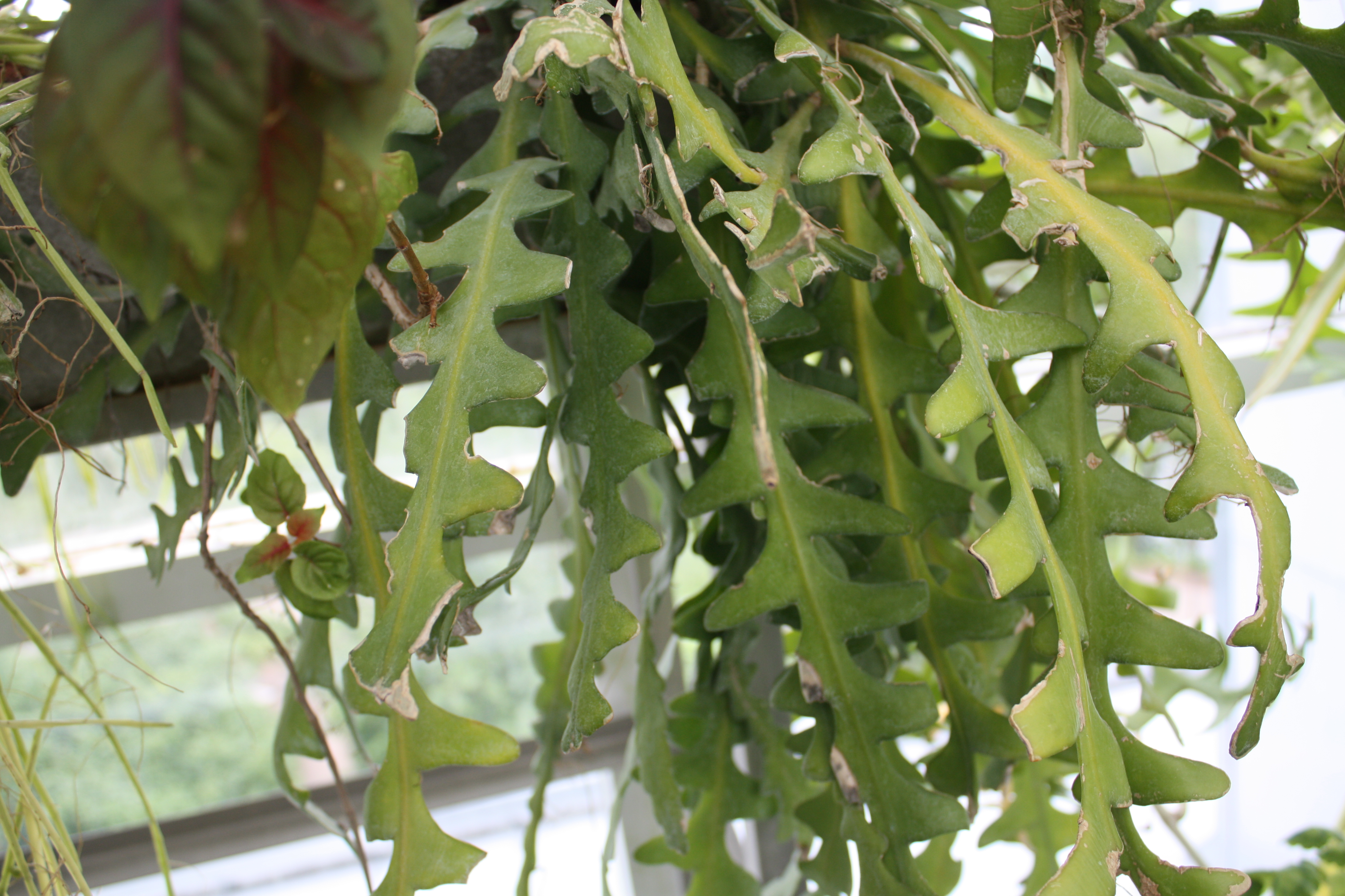 Ric Rac Cactus (Cryptocereus anthonyanus or Selenicereus anthonyanus) in the glass-house of Botanical garden of Tartu University, Estonia